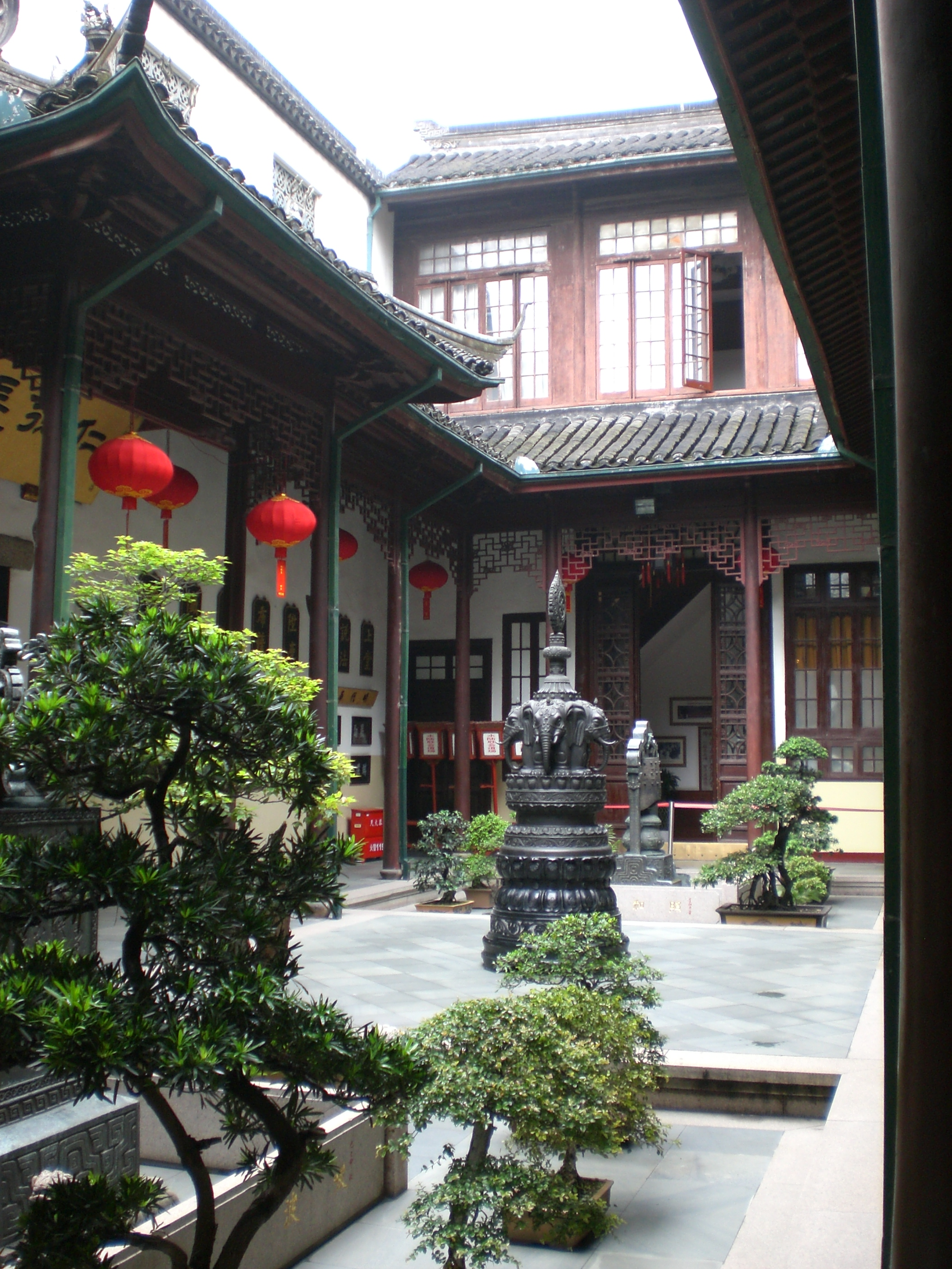 Shanghai, Jade Buddha Temple, 1918